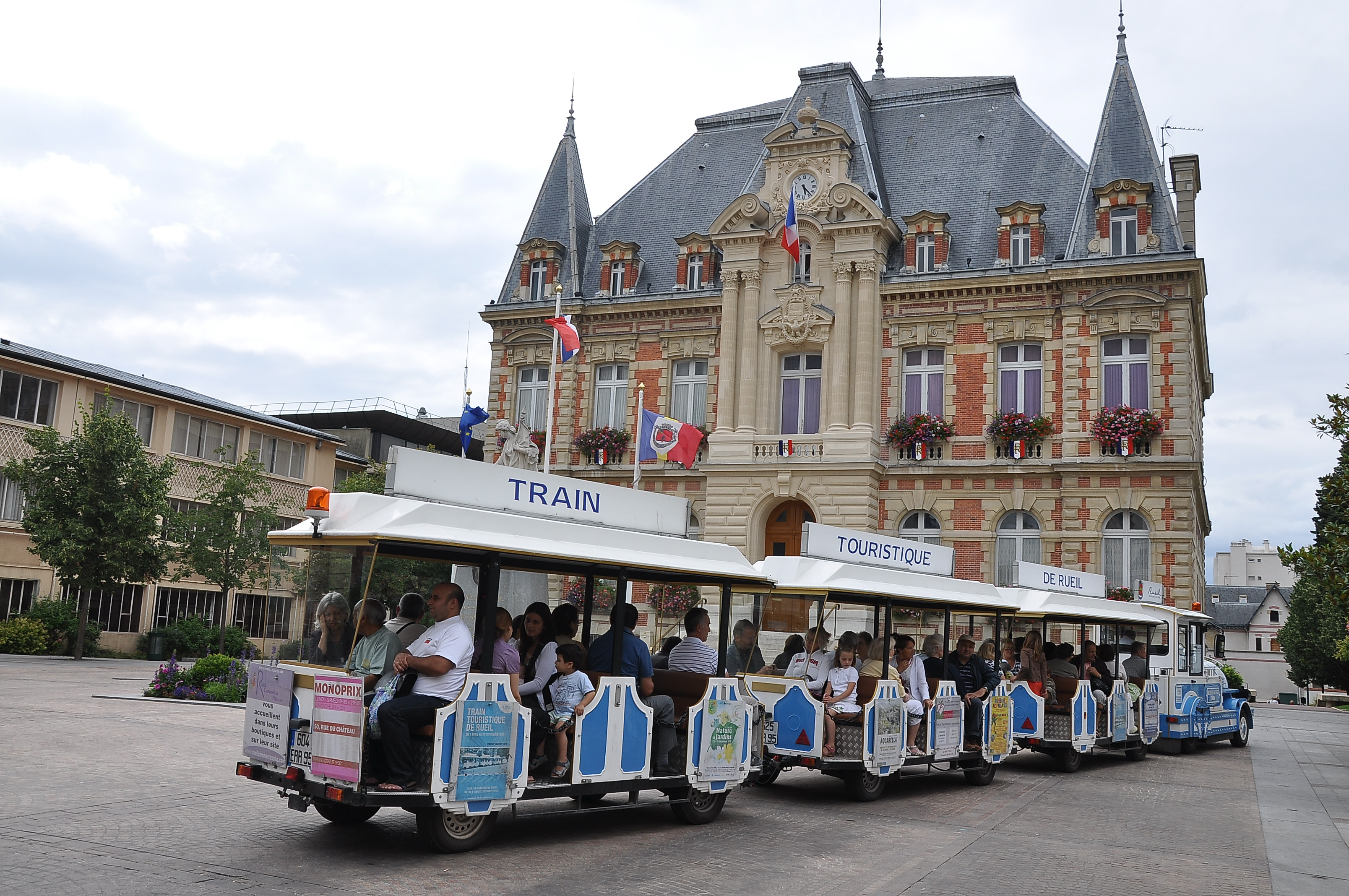 Small tourist train in front of the former City hall of Rueil-Malmaison in the department of Hauts-de-Seine, France.